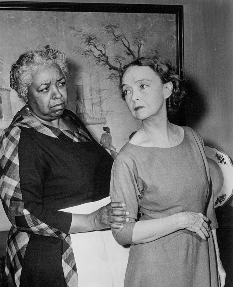 Photo of Ethel Waters and Lillian Gish in the 1955 television presentation of The Sound and the Fury on Playwrights '56 The item has no copyright markings on it as can be seen in the links above.